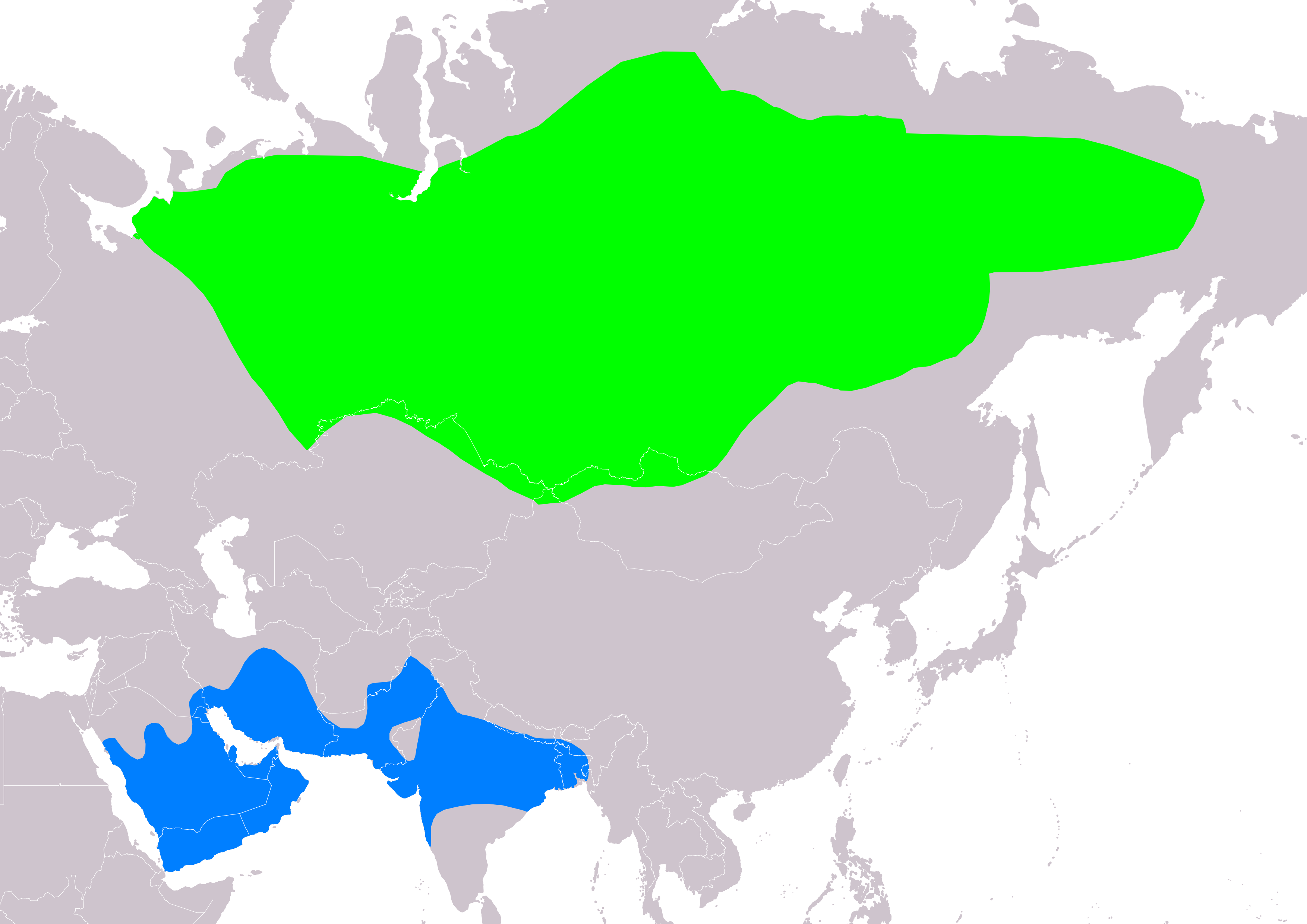 Distribution map of siberian chiffchaff (Phylloscopus tristis / P. collybita tristis) according to IUCN version 2019-2 ; key: Legend: Extant, breeding (#00FF00), Extant, non-breeding (#007FFF)